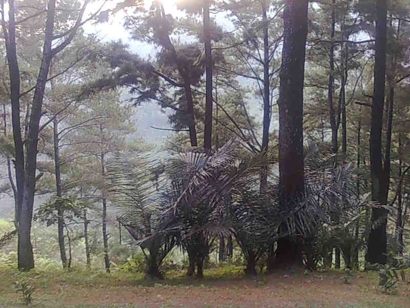 place in Colo, Kudus, Central Java, Indonesian